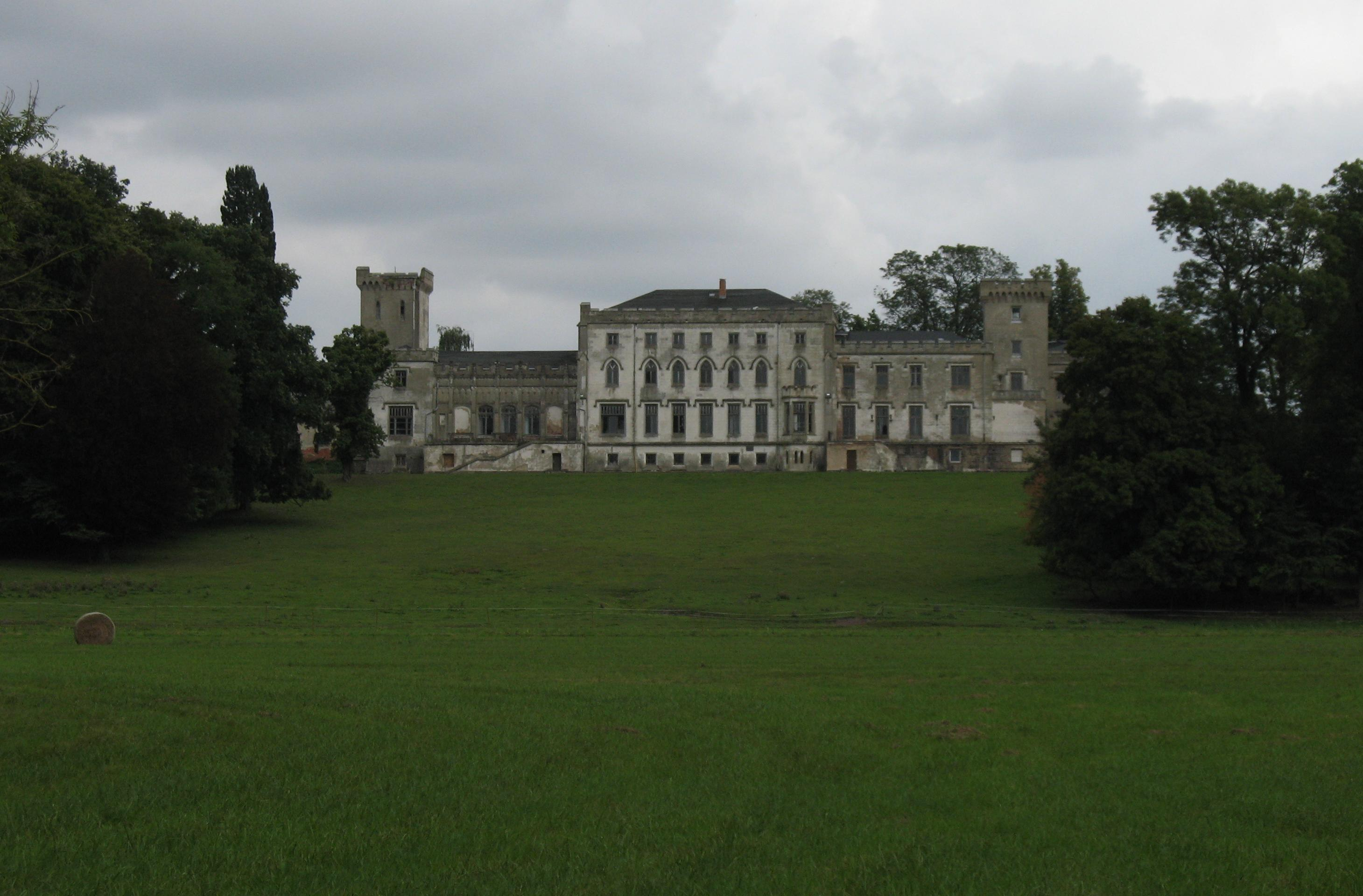 Park by Peter Joseph Lenné and mansion in Varchentin in Mecklenburg-Western Pomerania, Germany